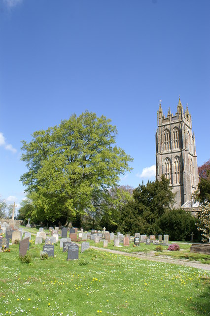 St Mary Magdelen Church, Chewton Mendip